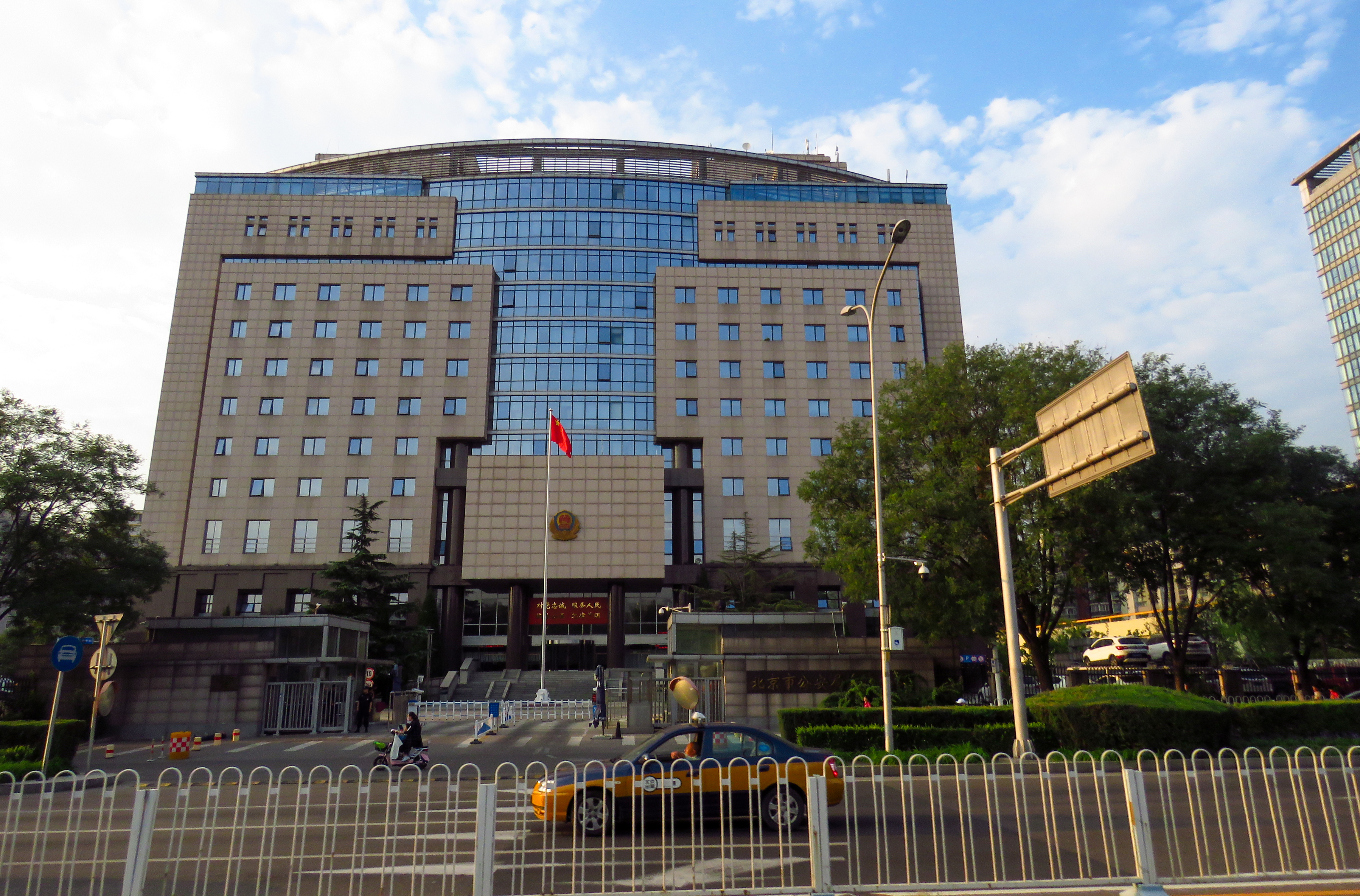 Just next to the government headquarters.